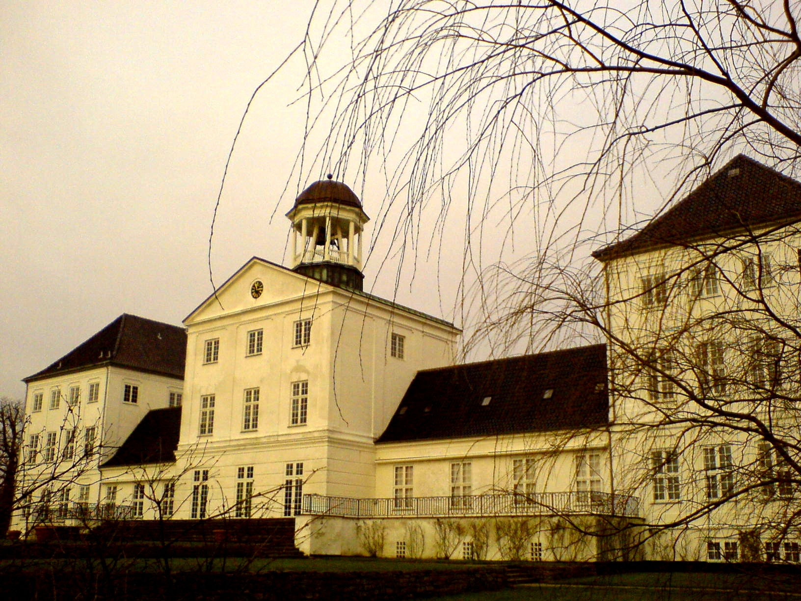 Description=Grasten Slot Source=myself Date=02.2007 Author=PodracerHH 18:16, 29 August 2007 (UTC)